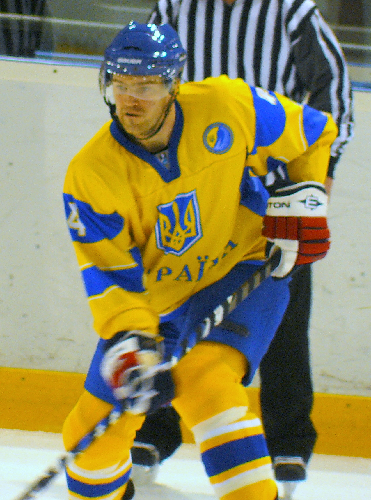 Defender Dmytro Tolkunov #4 of the Ukraine during the friendly game against the Poland on April 9, 2010 at the Terminal Arena in Brovary, Ukraine. Ukraine won the game 5:1.